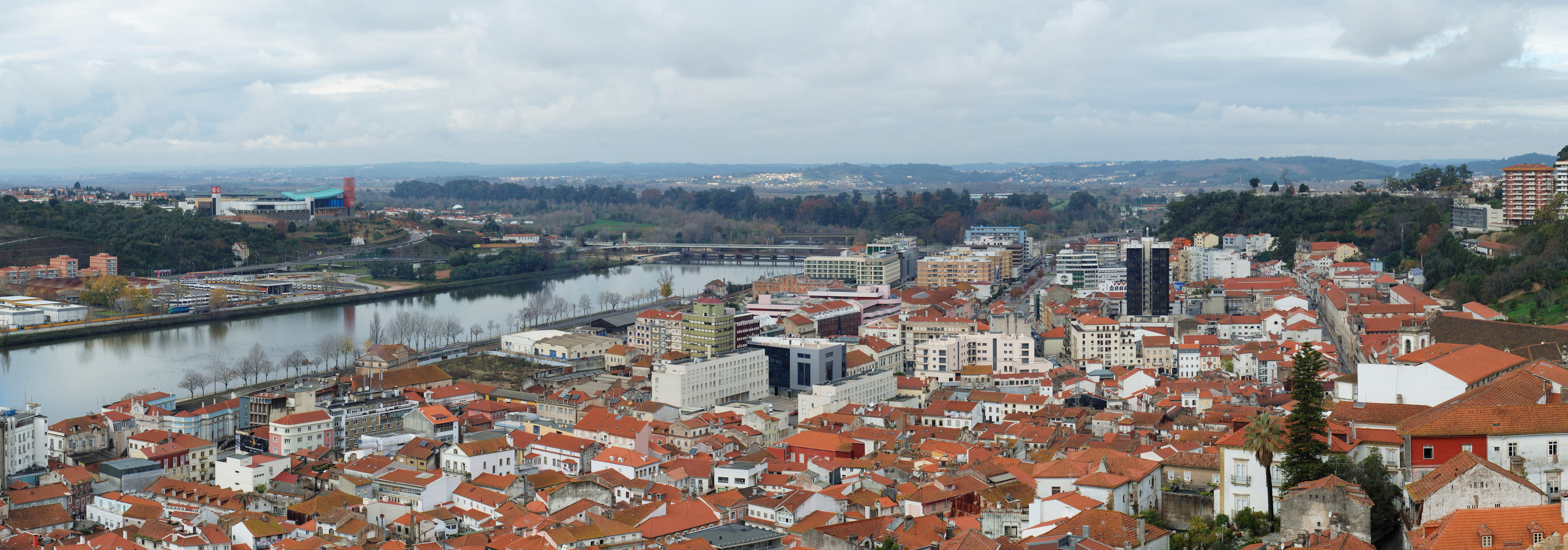 Coimbra, Portugal. View over the city and Mondego River